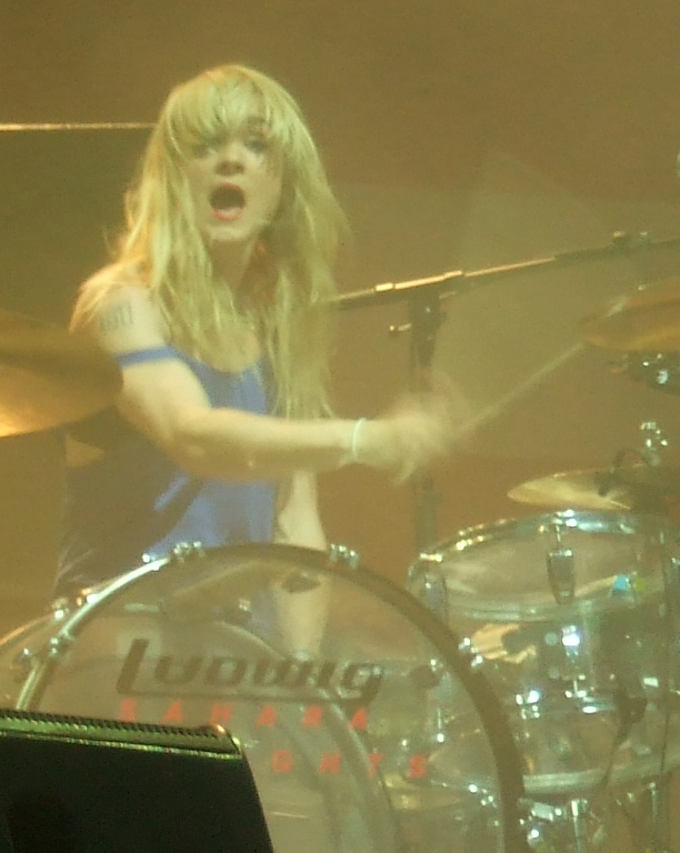 Josephine Forsman performing with the rock band Sahara Hotnights at Gatufesten in Sundsvall, Sweden